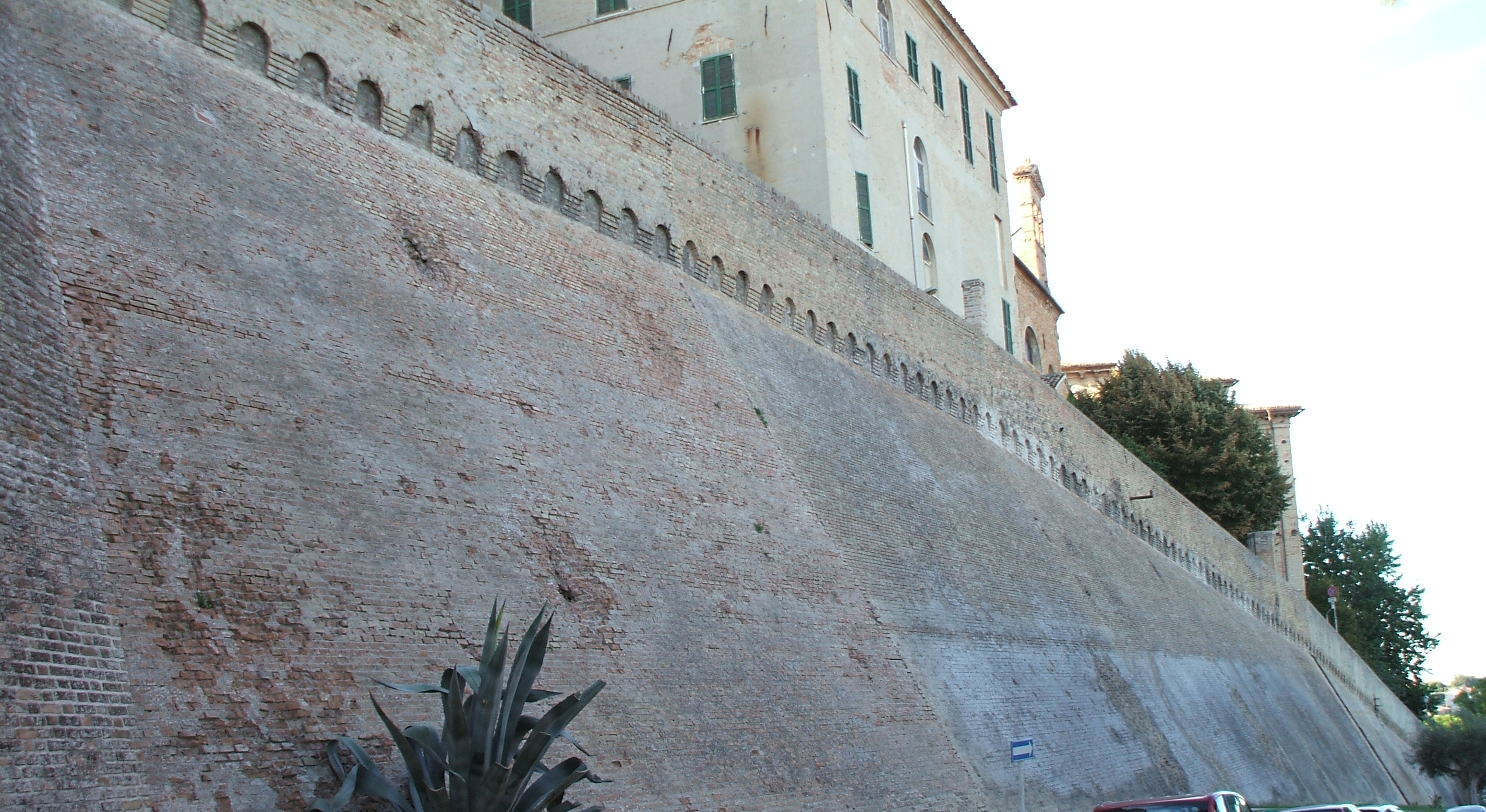 City walls of Ostra (AN) - Italy